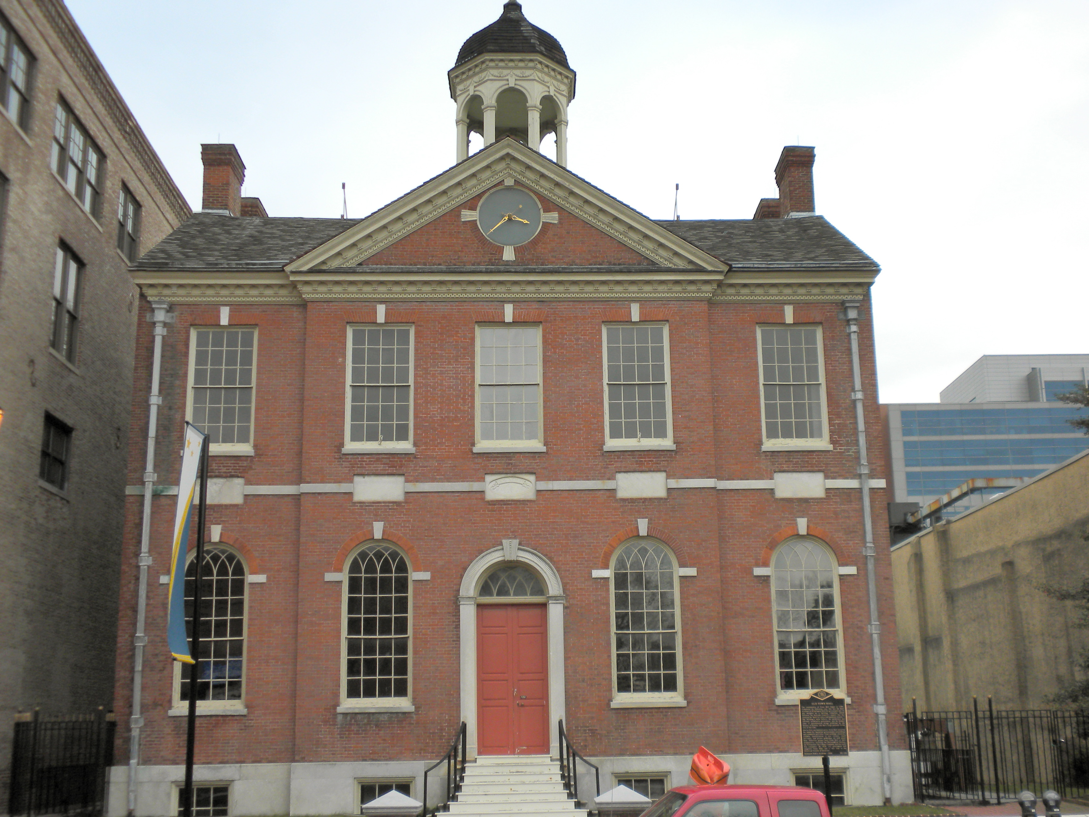 Old Town Hall in Wilmington, Delaware on North Market Street